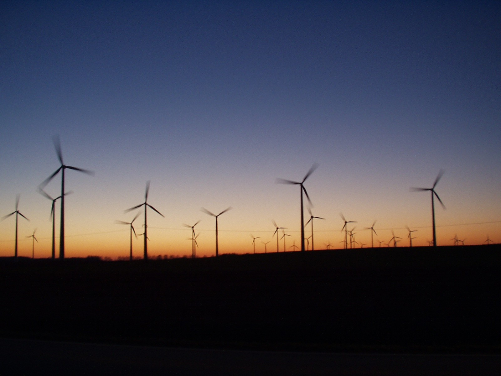 Wind park in north-eastern Germany (Mecklenburg)